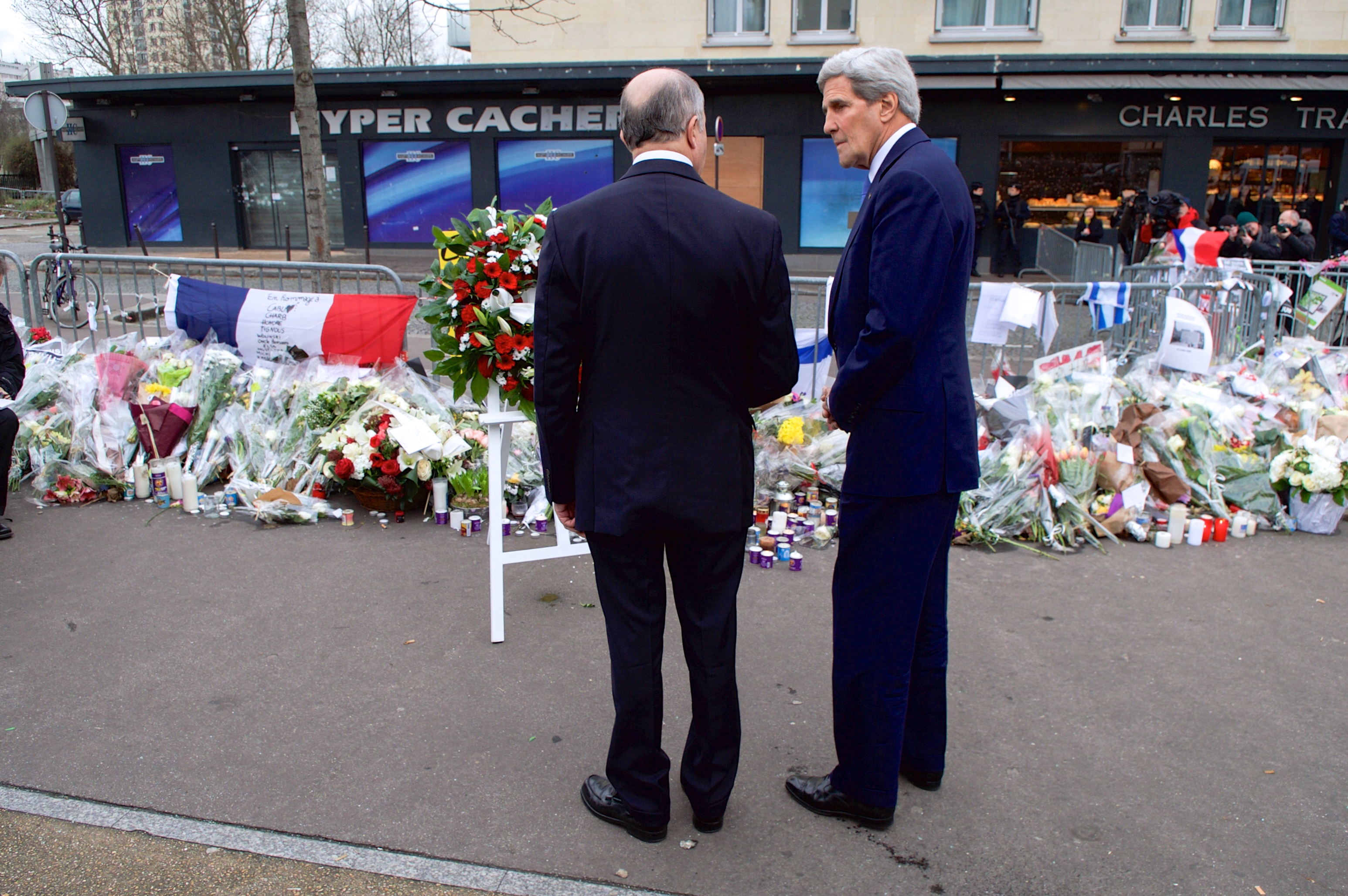 U.S. Secretary of State John Kerry and French Foreign Minister Laurent Fabius look out at the bullet holes and other damage at Hyper Cacher kosher grocery store in Paris, France, after they laid a wreath at the side while traveling across the city on January 16, 2015, to pay homage to the victims of last week's shootings.